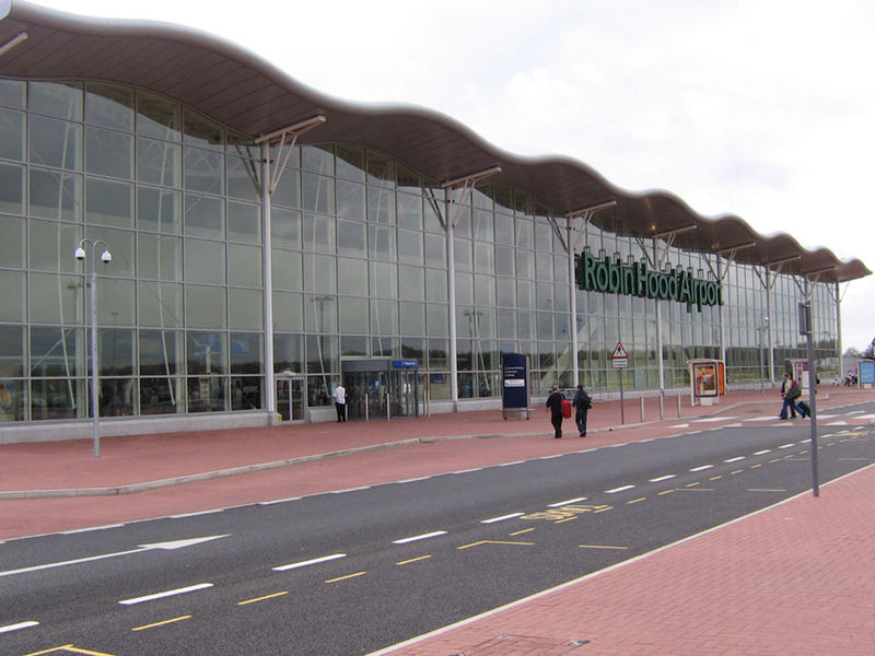 Robin Hood Airport passenger terminal